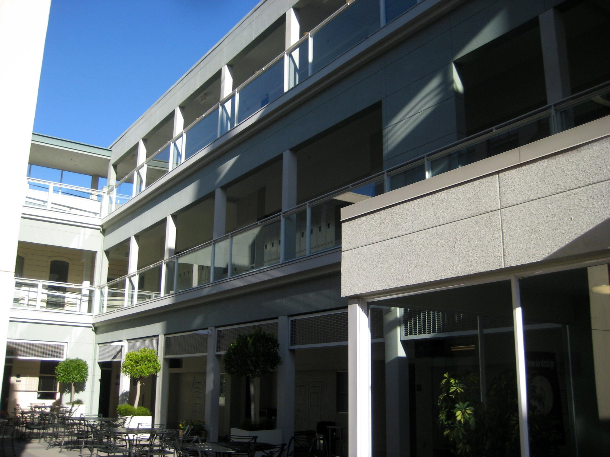 The Courtyard of Stuart Hall High School